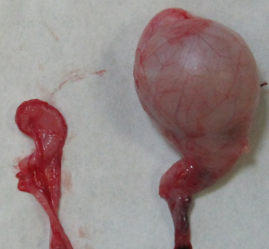 hypoplastic testis in a cat, on the right side the normally developed organ